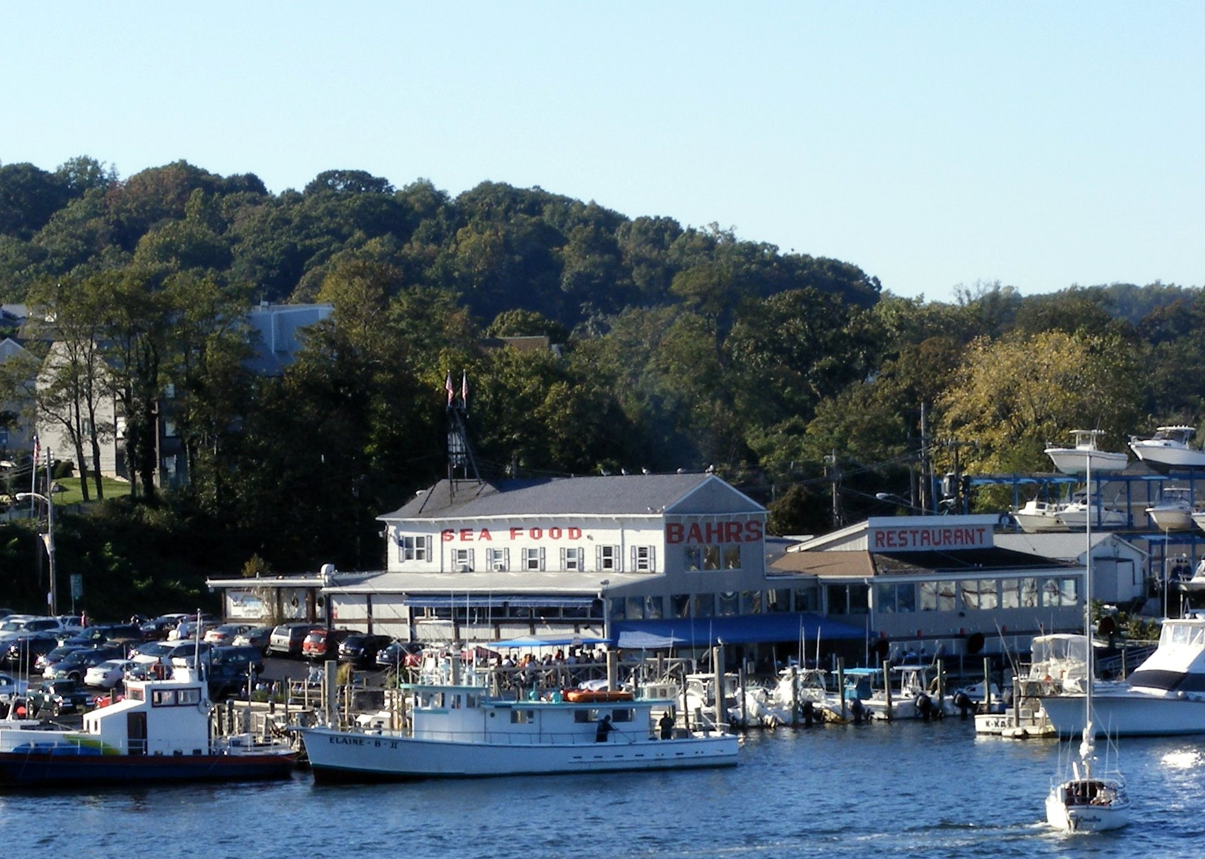 Bahr's Restaurant in Highlands, NJ